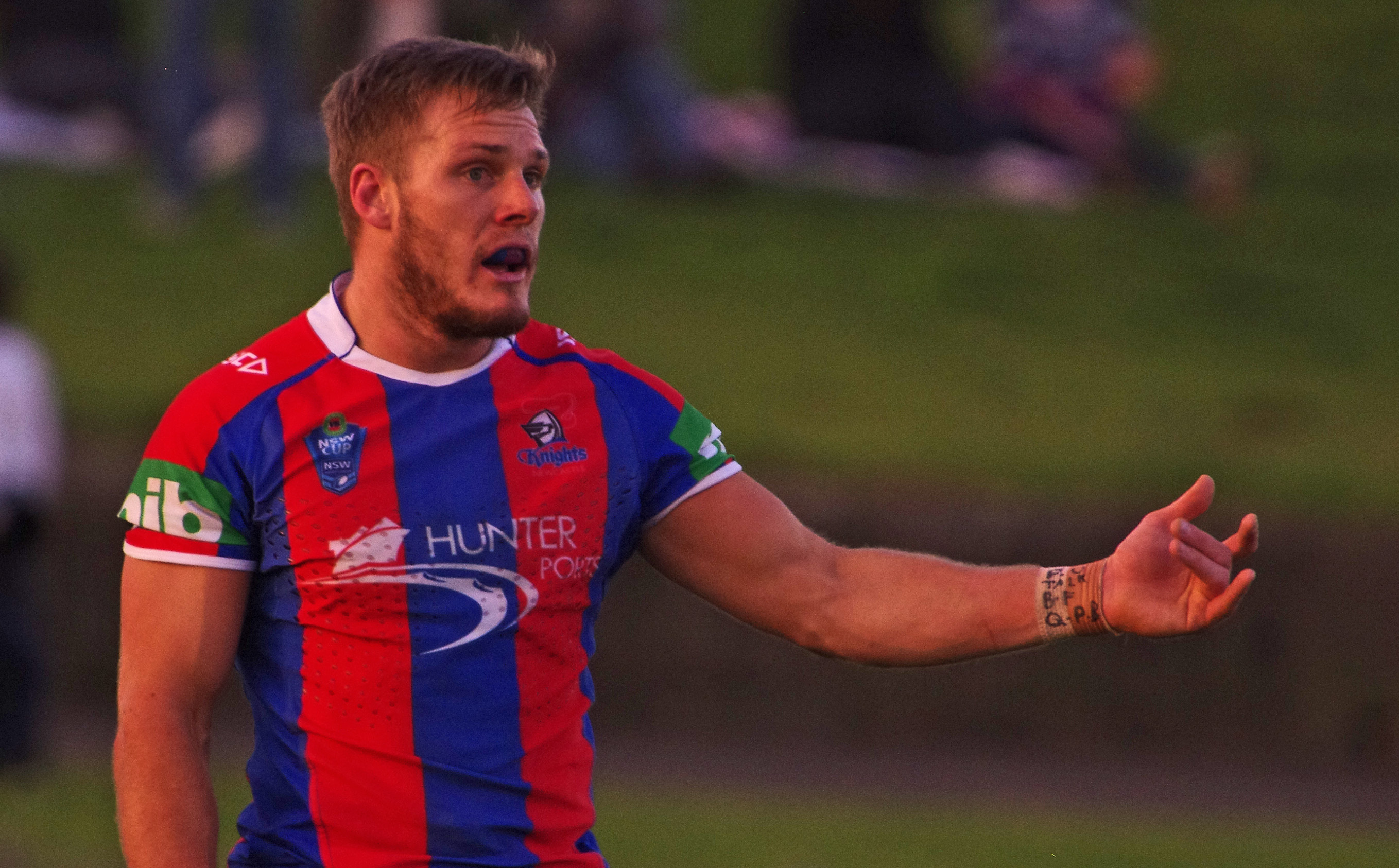 Nathan Ross